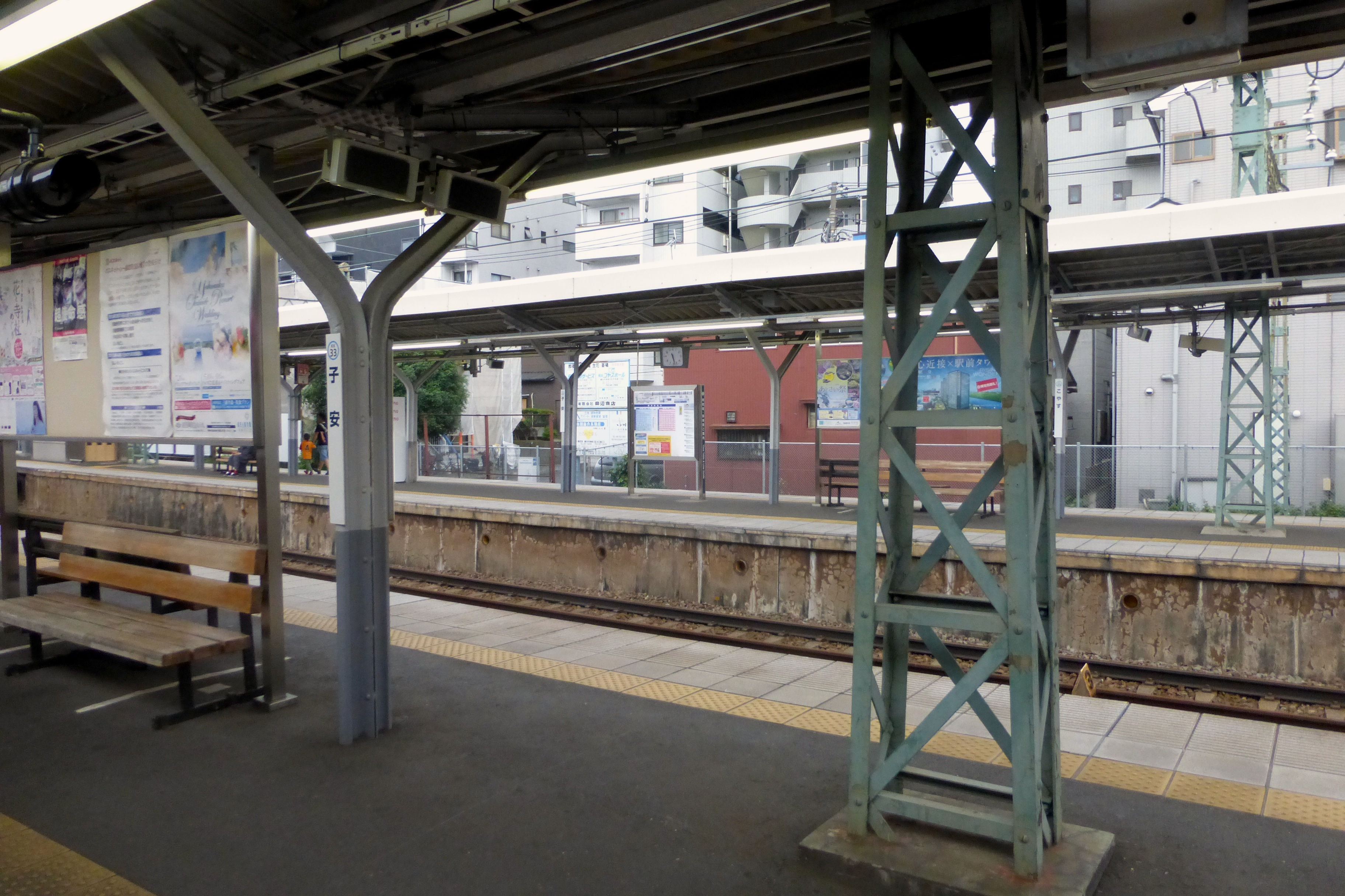 Koyasu station platforms (子安駅のホーム)